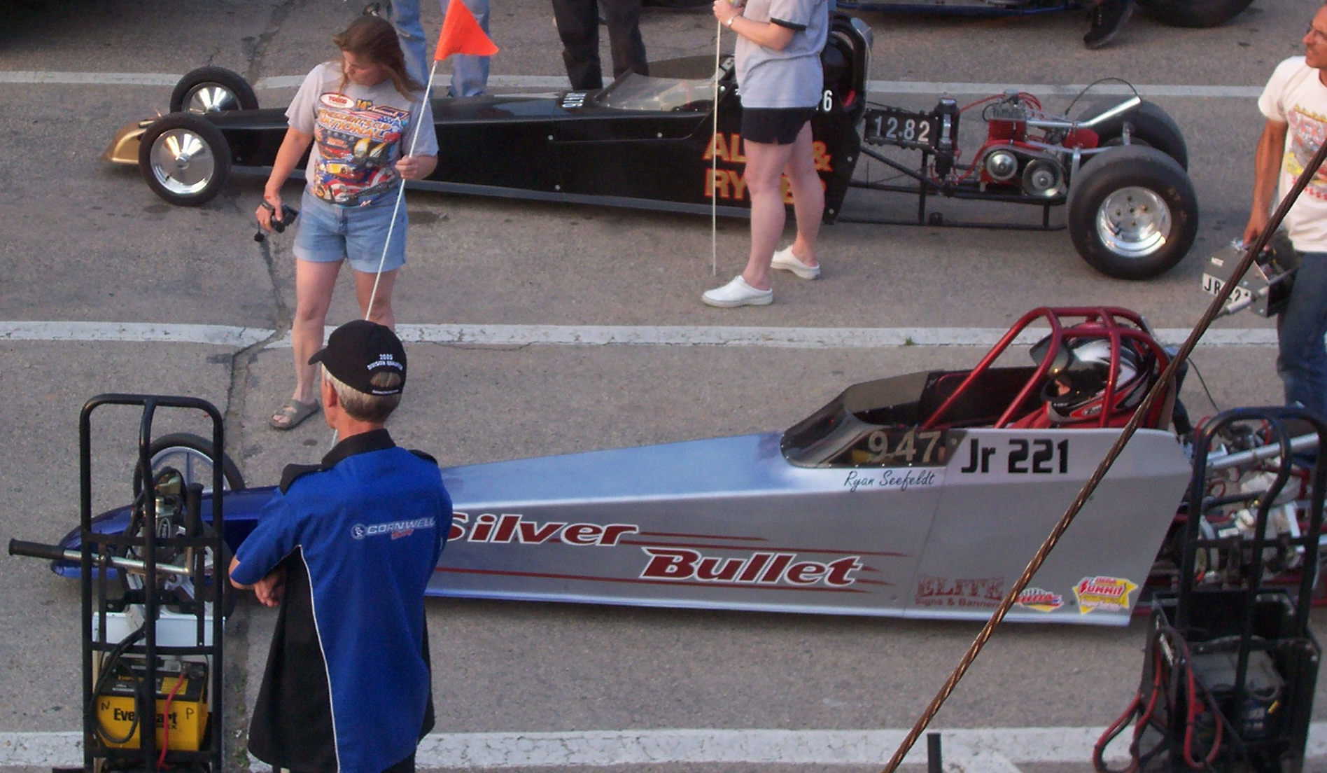 Junior Dragsters at Wisconsin International Raceway.